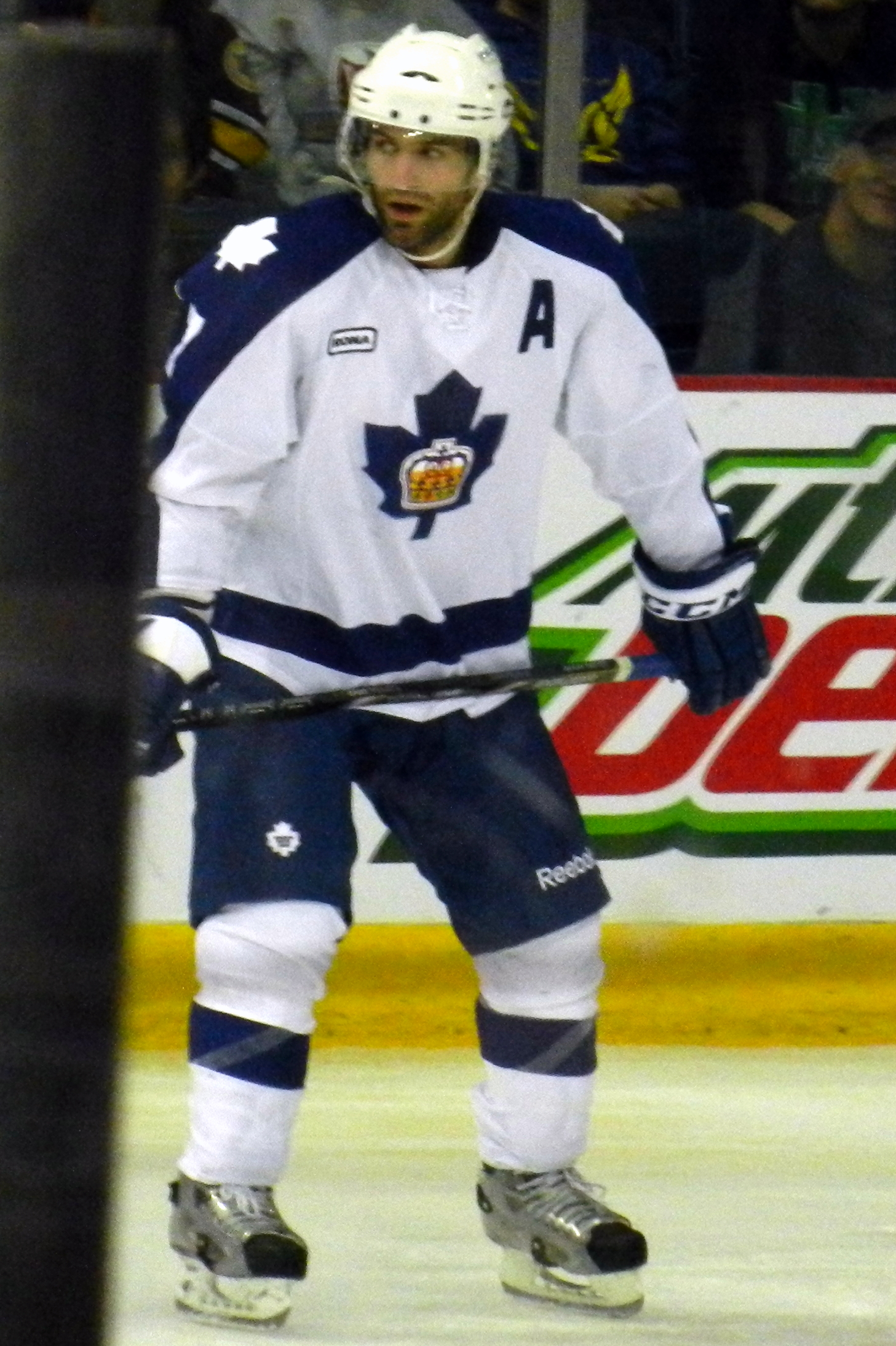 Mike Zigomanis playing for the American Hockey League's Toronto Marlies in 2013